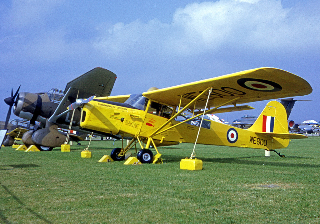 Auster T.7 Antarctic WE600 at RAF Abingdon in 1968